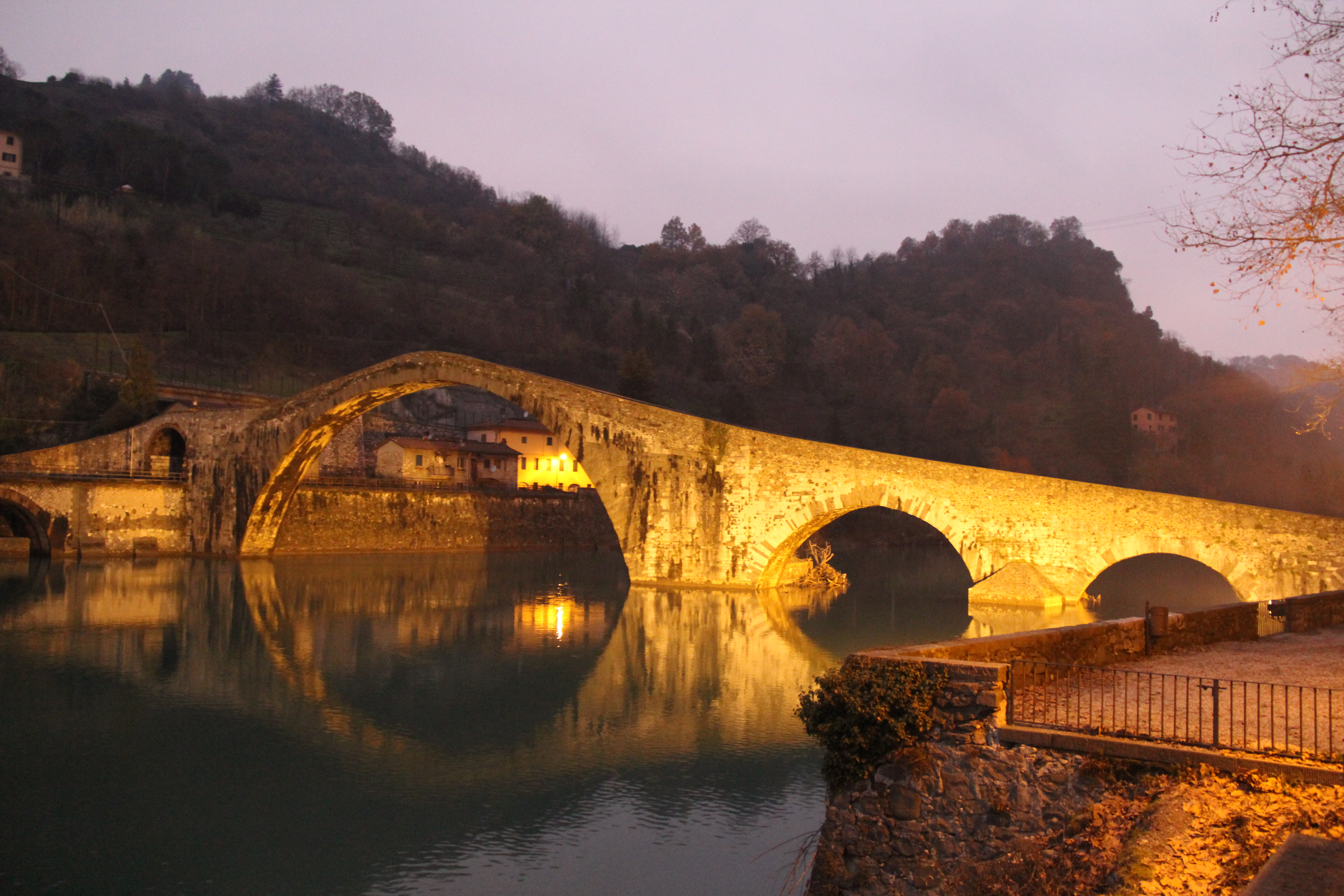 Ponte della Maddalena is a medieval bridge crossing the Serchio river, northwest of Lucca, Italy.